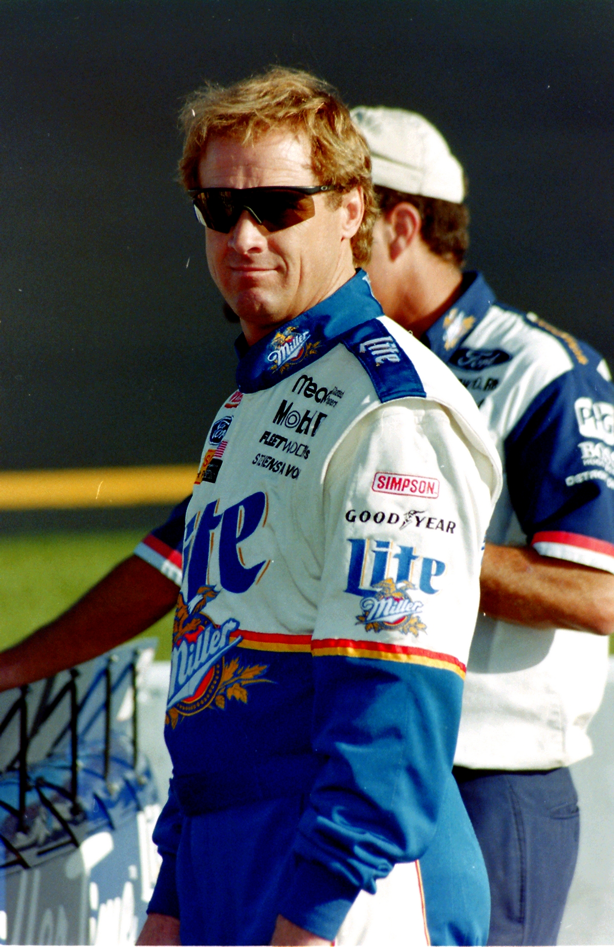 Rusty Wallace in 1997.